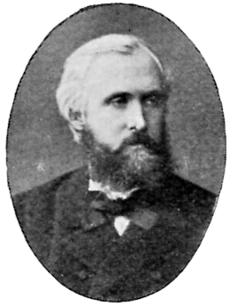 Image scanned from the book "Svenskt Porträttgalleri XX - Arkitekter, Bildhuggare, Målare m.fl. " ("Swedish Portrait Gallery XX - Architects, Sculptors, Painters, ") published 1901